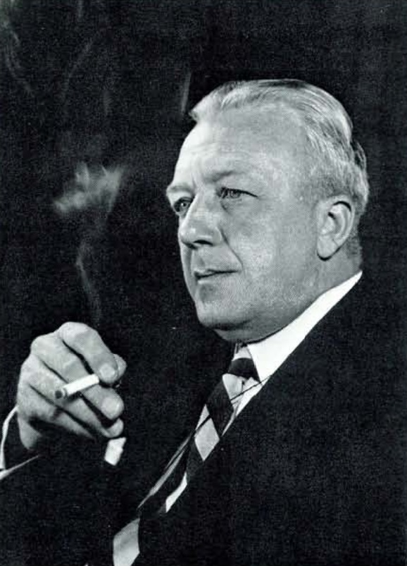 Hans Frebold